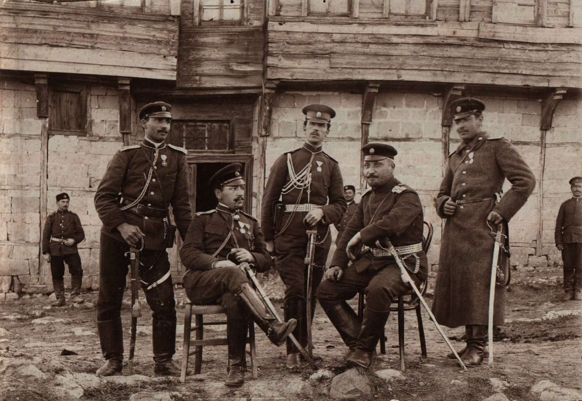 Photo from Çatalca. From left to right: Lieutenant Andreya Miskanov, Lieutenant Boris Bogdanov, Lieutenant Ivan Shapkarev reserve lieutenant Zografov and lieutenant Yakimov, First Balkan War.